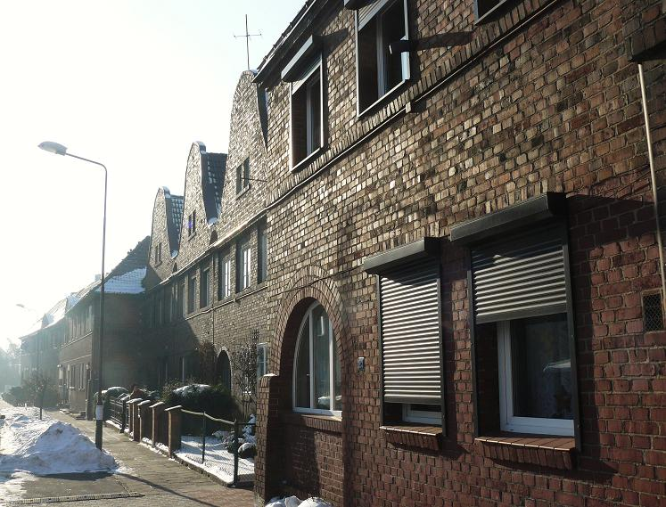 Poznan, Hutnicza Street, Debiec District.